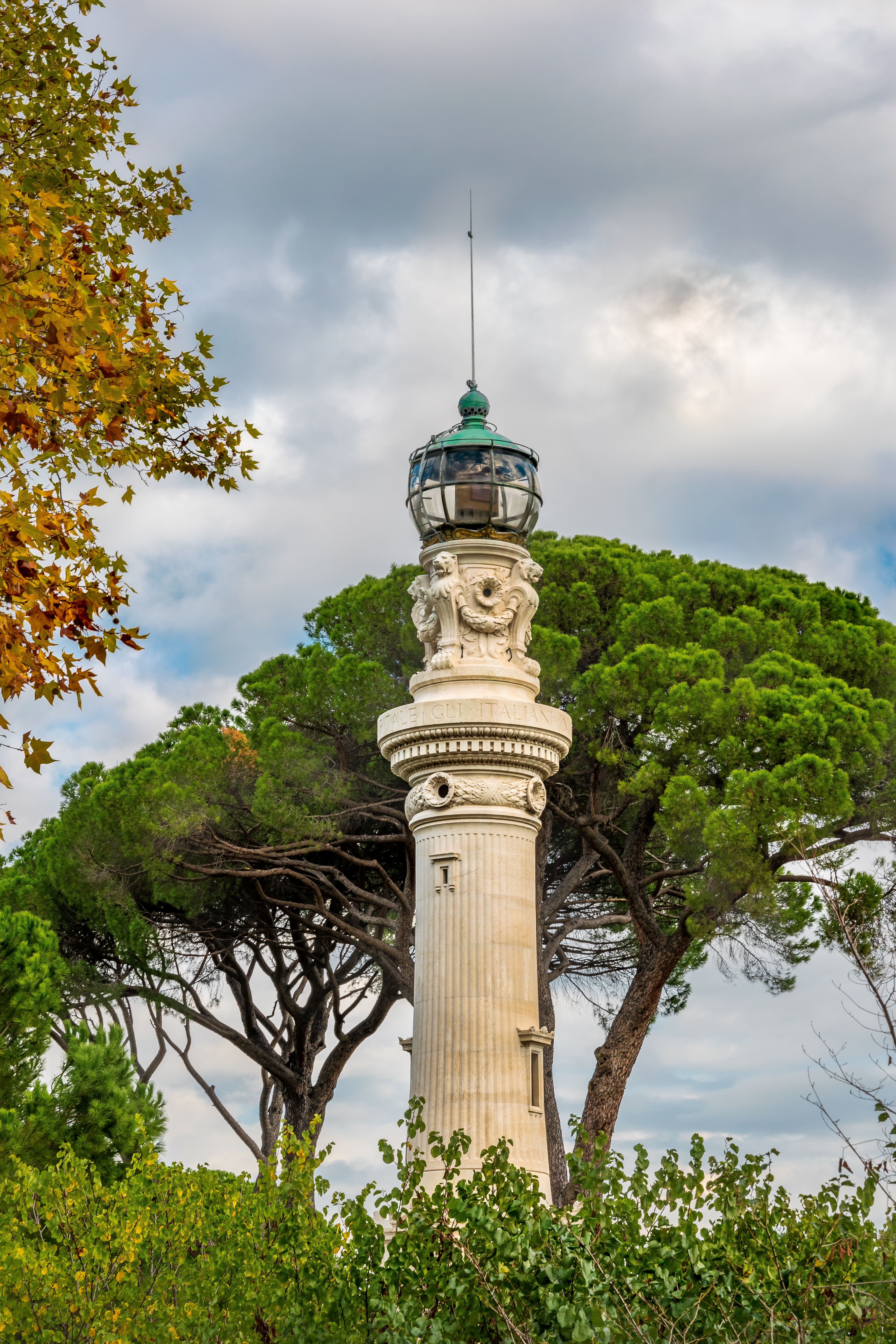 The lighthouse Faro del Gianicolo on the hill Gianicolo in Rome, Italy